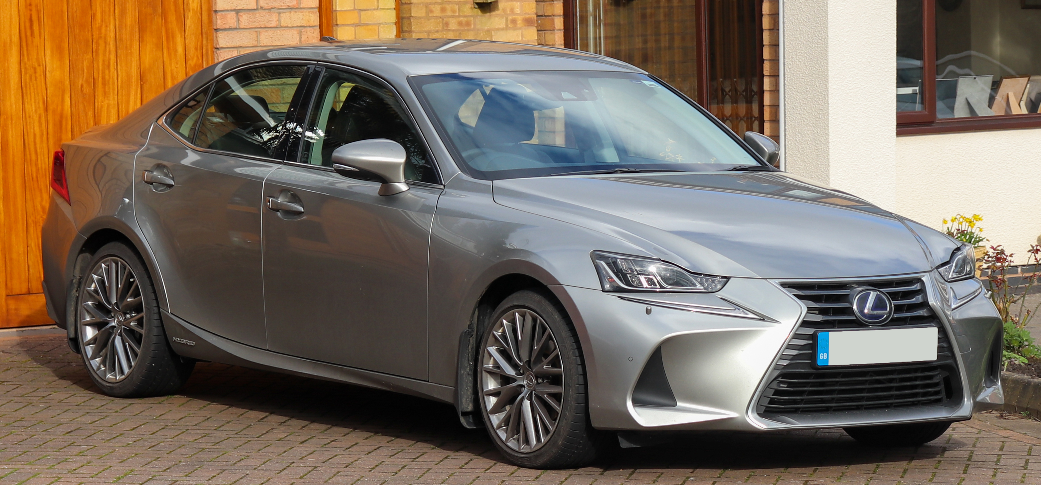 2019 Lexus IS 300h CVT 2.5 Taken in Leamington Spa